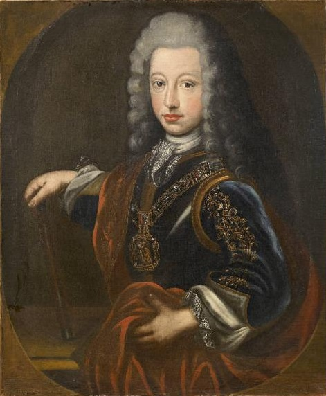 Portrait of Victor Amadeus II of Sardinia (1666-1732)